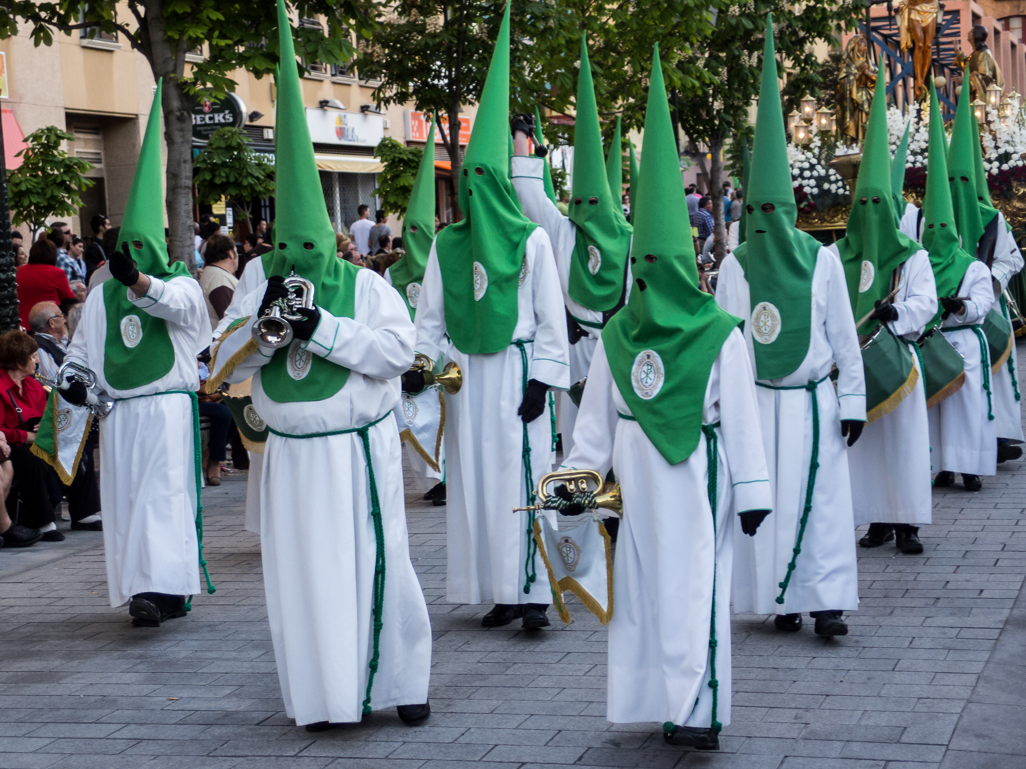 OLYMPUS DIGITAL CAMERA This is a photography of a Folklore festival in Spain (Wikidata id Q9075892).